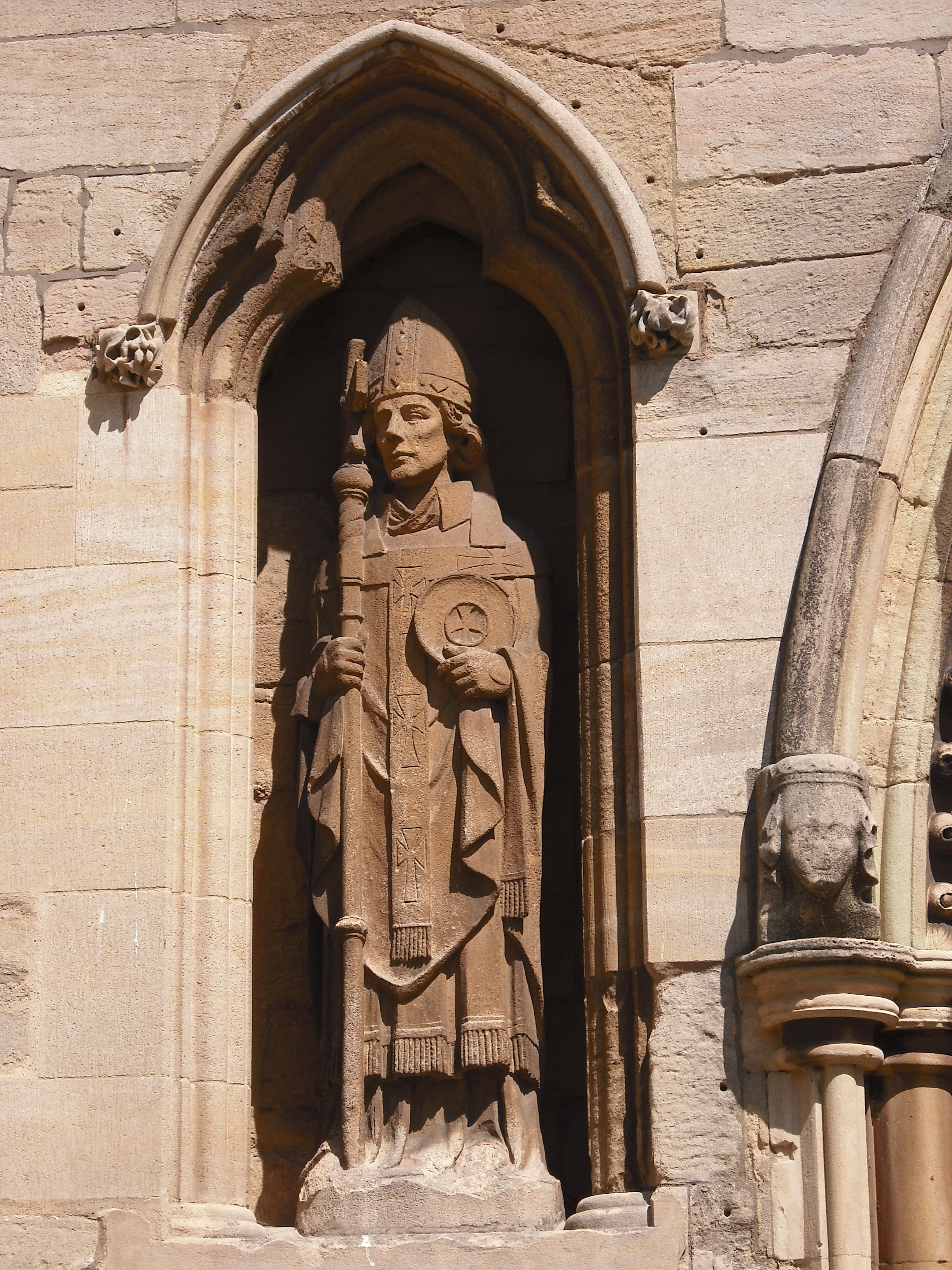 St Wulfram's, Grantham - tabernacle